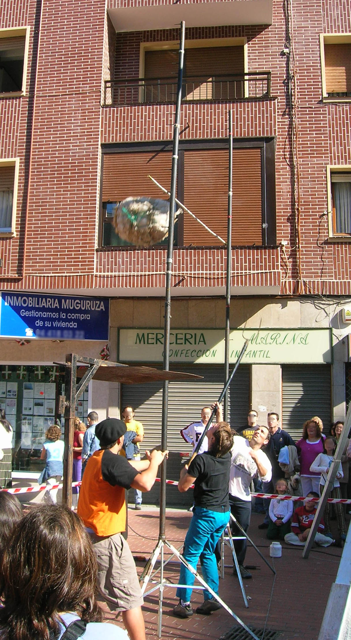 Sheaf toss competition at Santa Teresa Plaza, Barakaldo, during the fests in honour of Saint Theresa of Avila.